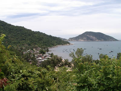 Cham Islands, Vietnam.